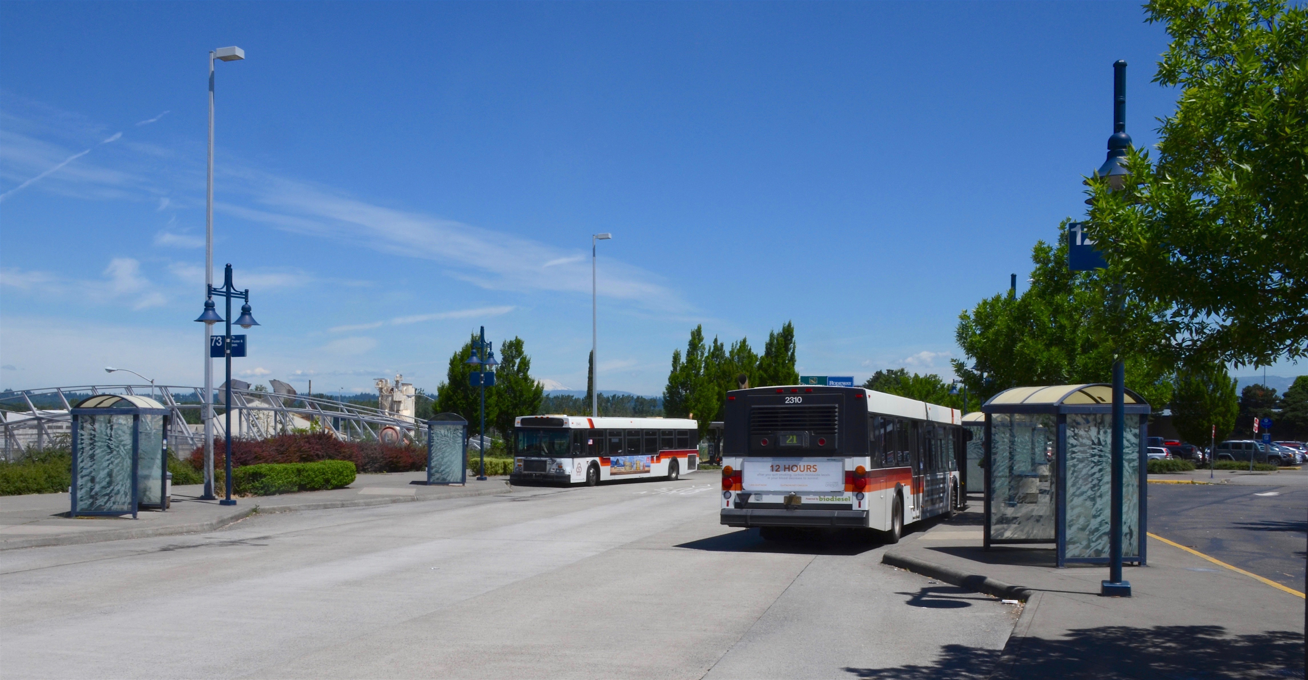 TriMet's Parkrose/Sumner Transit Center (in Portland, Oregon), with two buses laying over. The metal bridge partially visible at left leads to the transit center's MAX light rail station, on the MAX Red Line. Buses 2545 (left) and 2310 are both New Flyer D40LFs, built in 2001 and 1999, respectively. This facility first opened in 1984, as a park-and-ride lot (Parkrose Park & Ride) – not designated a transit center, because it was served only by a single bus route (14-Sandy, renumbered 12 in 1986), with a second route (201) added in the 1990s. A MAX station was opened adjacent to the park-and-ride in 2001, and it was renamed Parkrose/Sumner Transit Center at that time.